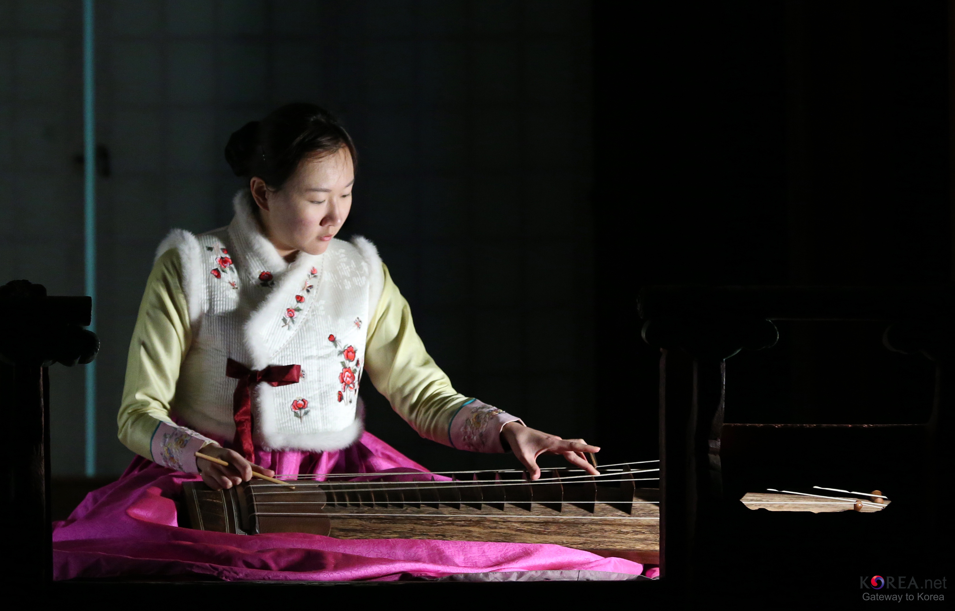 Moonlight Tour at Changdeokgung (Palace)